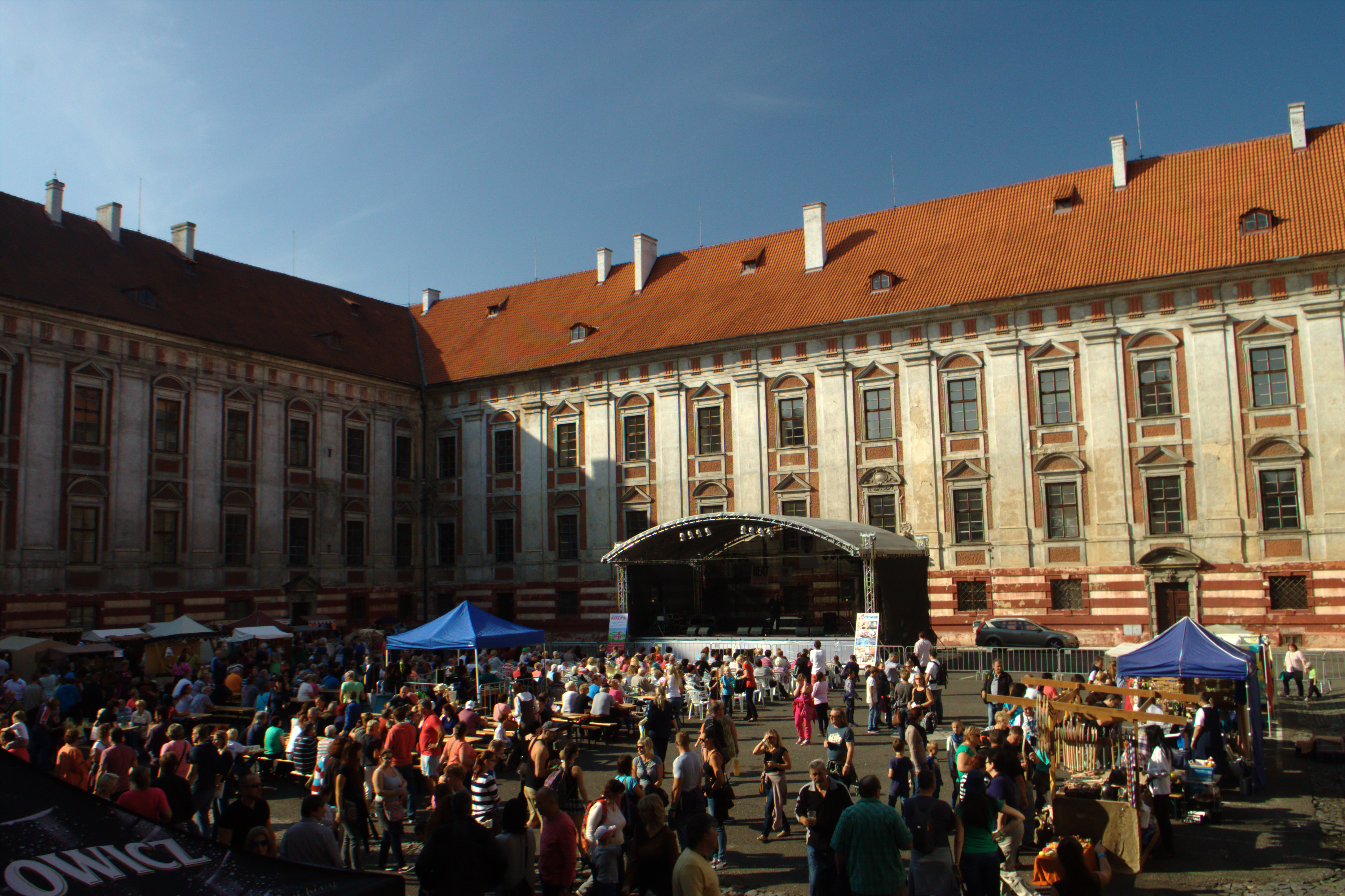 Music stage during the Roudnické vinobraní event in Roudnice nad Labem, Ústí Region, CZ